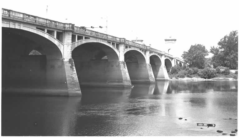 Side of the Market Street Bridge, which carries Market Street over the Susquehanna River between Kingston and Wilkes-Barre, Pennsylvania, United States. Built in 1928, this concrete deck arch bridge is listed on the National Register of Historic Places.